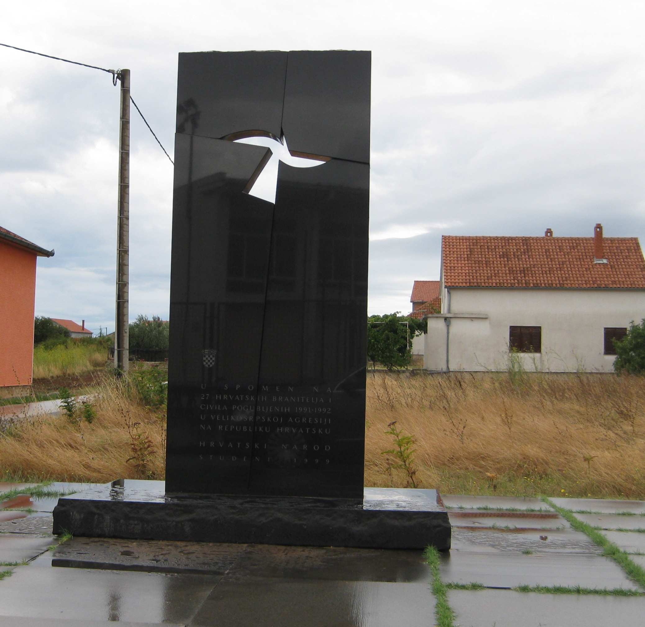 Memorial to the victims of the Skabrnja massacre